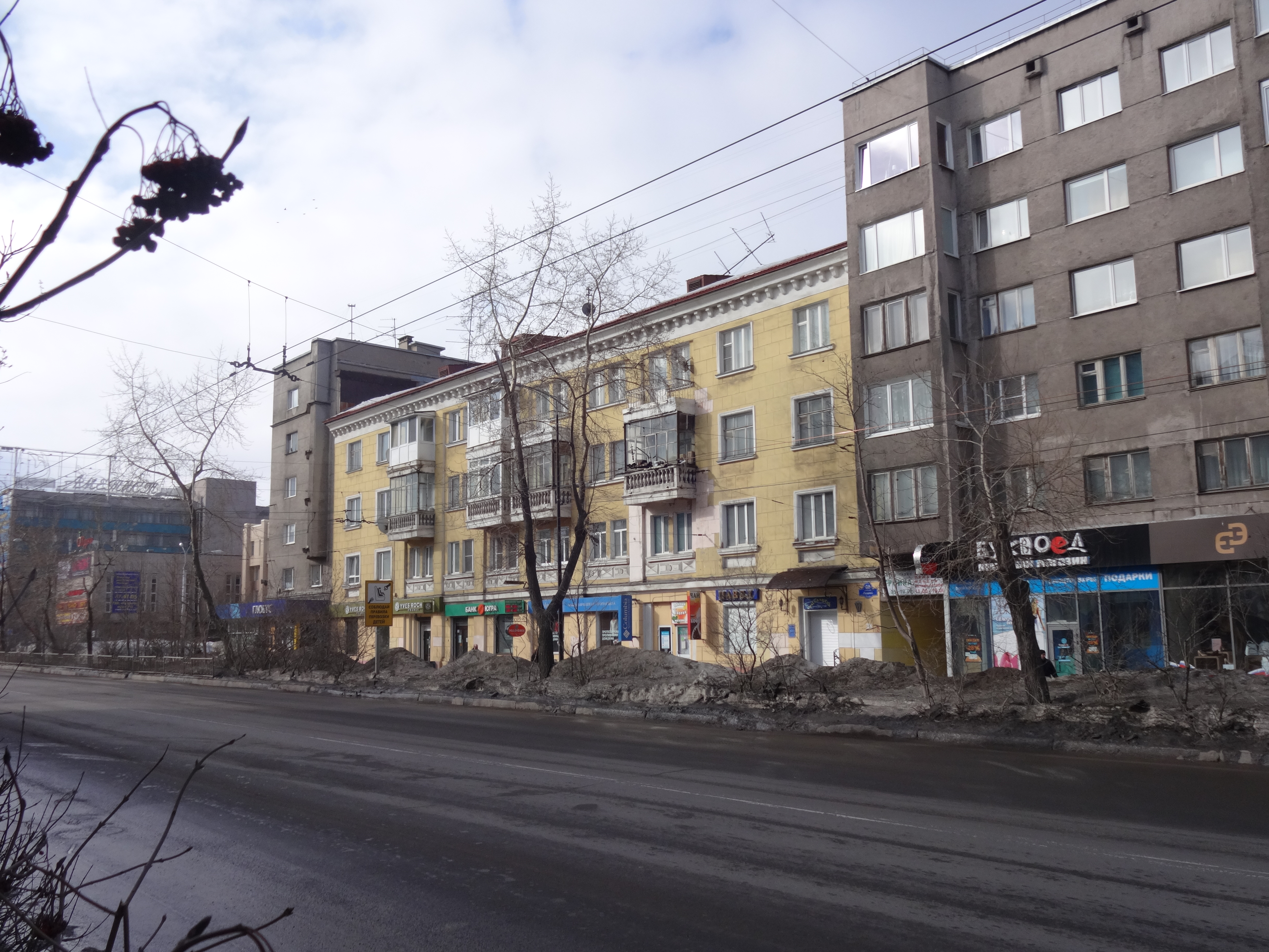 Murmansk, Lenin avenue, 60